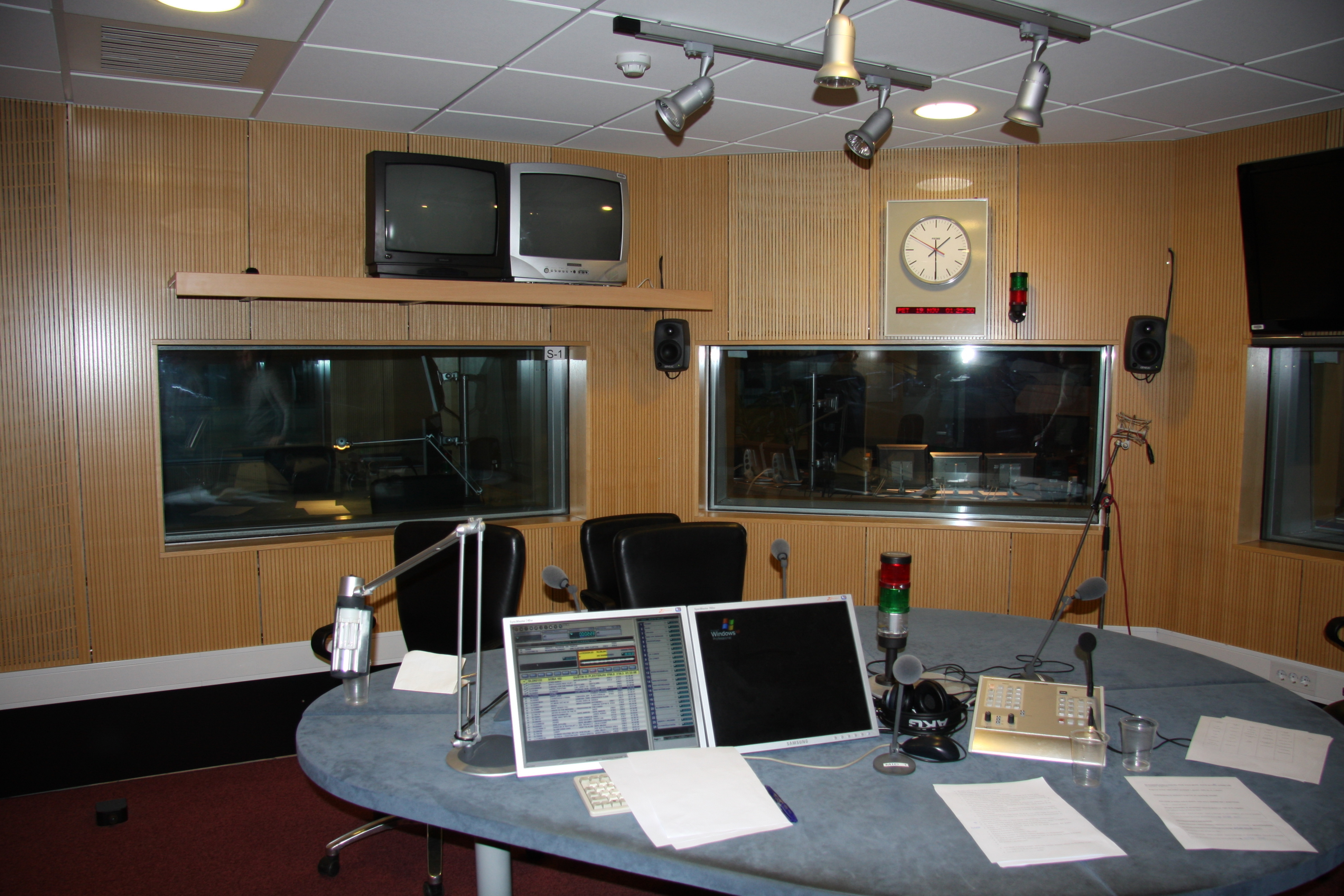 Studio of the 1. program of Radio Slovenia.